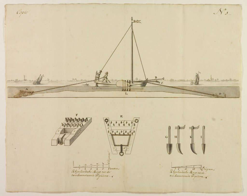 Dredger, invented by Cornelis van Velsen, from 1750